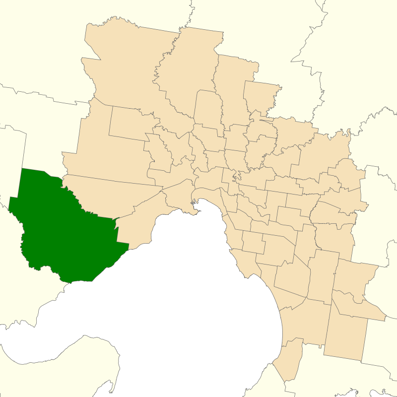 Location of the Victorian electoral district of Werribee (dark green) in the Greater Melbourne area.